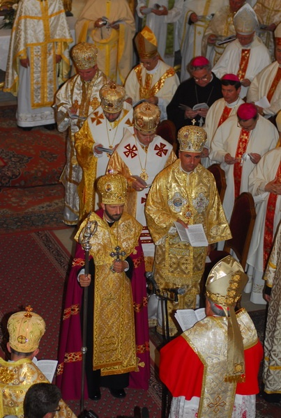 The final prays on the ordaining ceremony of Fülöp (Philip), the new Greek Catholic bishop of Hajdúdorog, Hungary. Fülöp wears rather different vestment than during the liturgy. In the Byzantine rite the bishop wears a purple mantle when he formally enters or leaves the church or he is attending a service where he doesn't serve. Right now Fülöp is about to leave the church so he wears the purple mantle above his liturgical vestment. In front of the new bishop, in red, Roman Catholic vestment stands Cardinal Leonardo Sandri, the Prefect of the Congregation for the Oriental Churches.